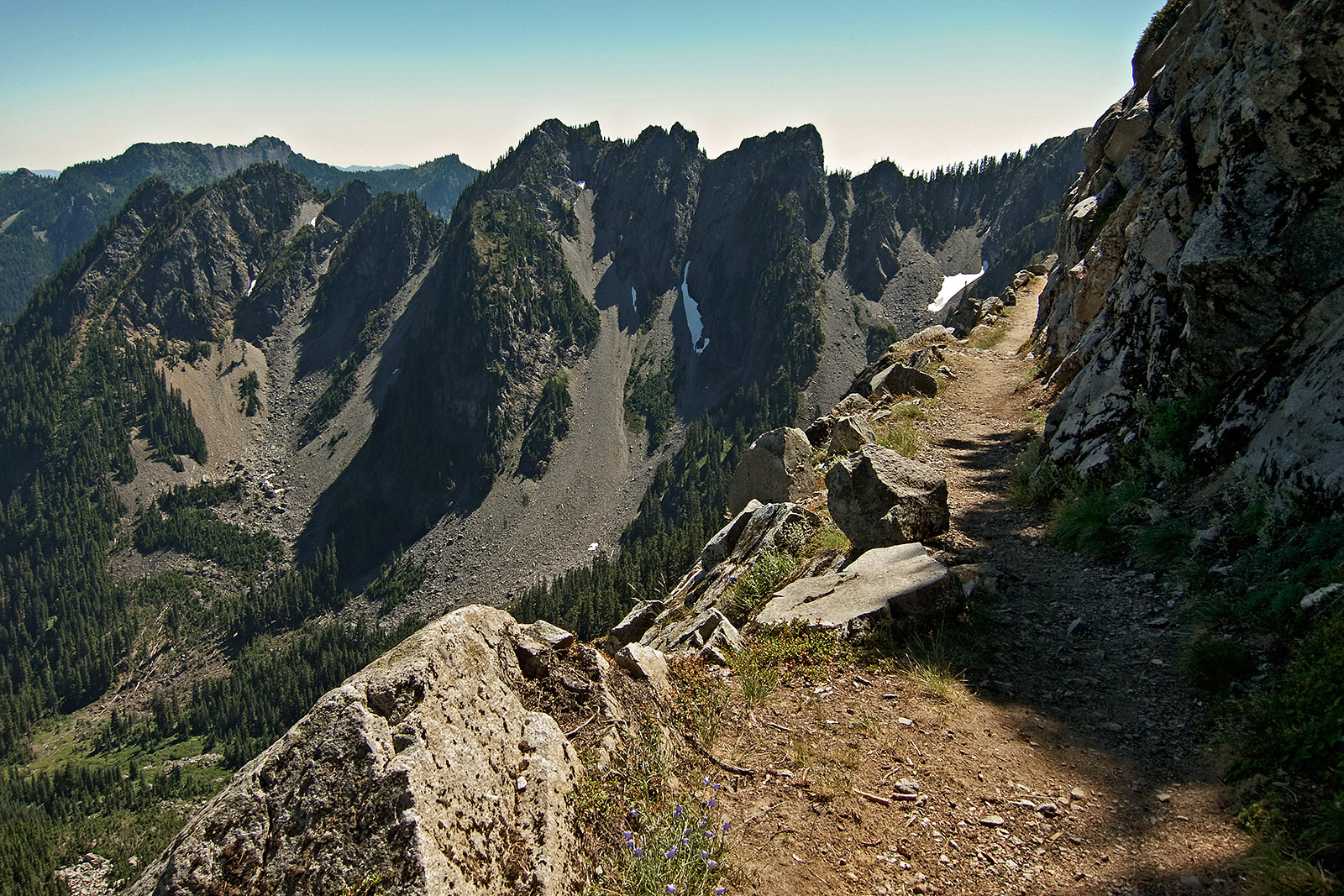 The Kendall Katwalk Trail along the stretch of the Pacific Crest Trail in the Alpine Lakes Wilderness.